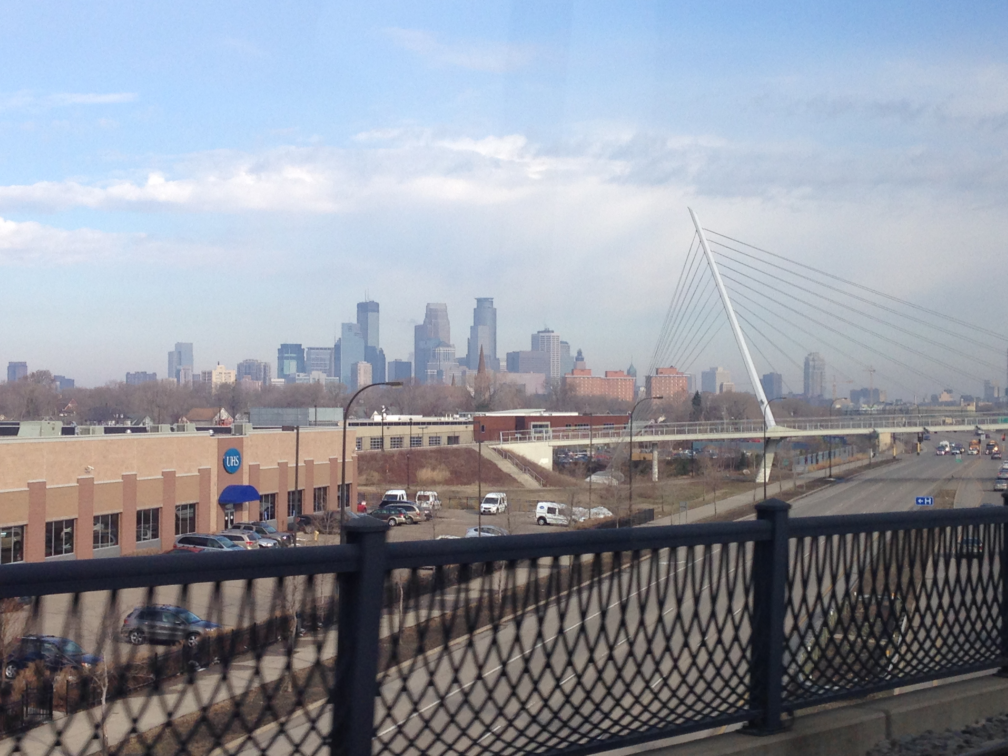 Downtown Minneapolis from the Hiawatha Avenue bridge over Lake Street, on the Blue Line light rail train. The Martin Olav Sabo Bridge, a cable suspended pedestrian and bicycle bridge for the Midtown Greenway, is in this image.